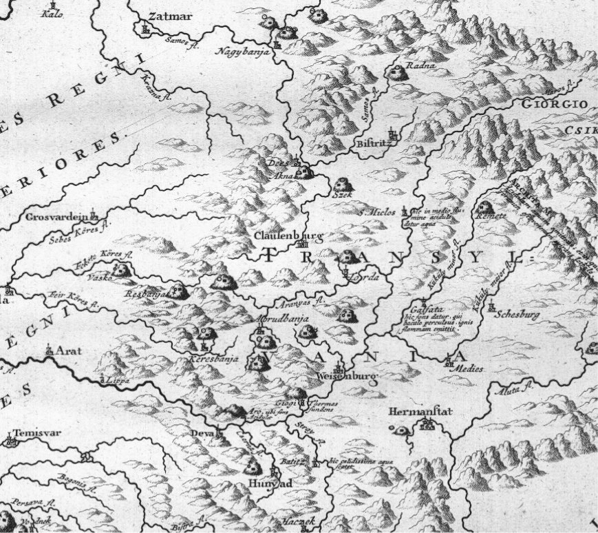 Mining map of Northern Transylvania (Romania). Published in the 1726 work Danubius Pannonico-Mysicus, vol. 2 by the Italian naturalist and soldier Luigi Ferdinando Marsigli (1658 – 1730).